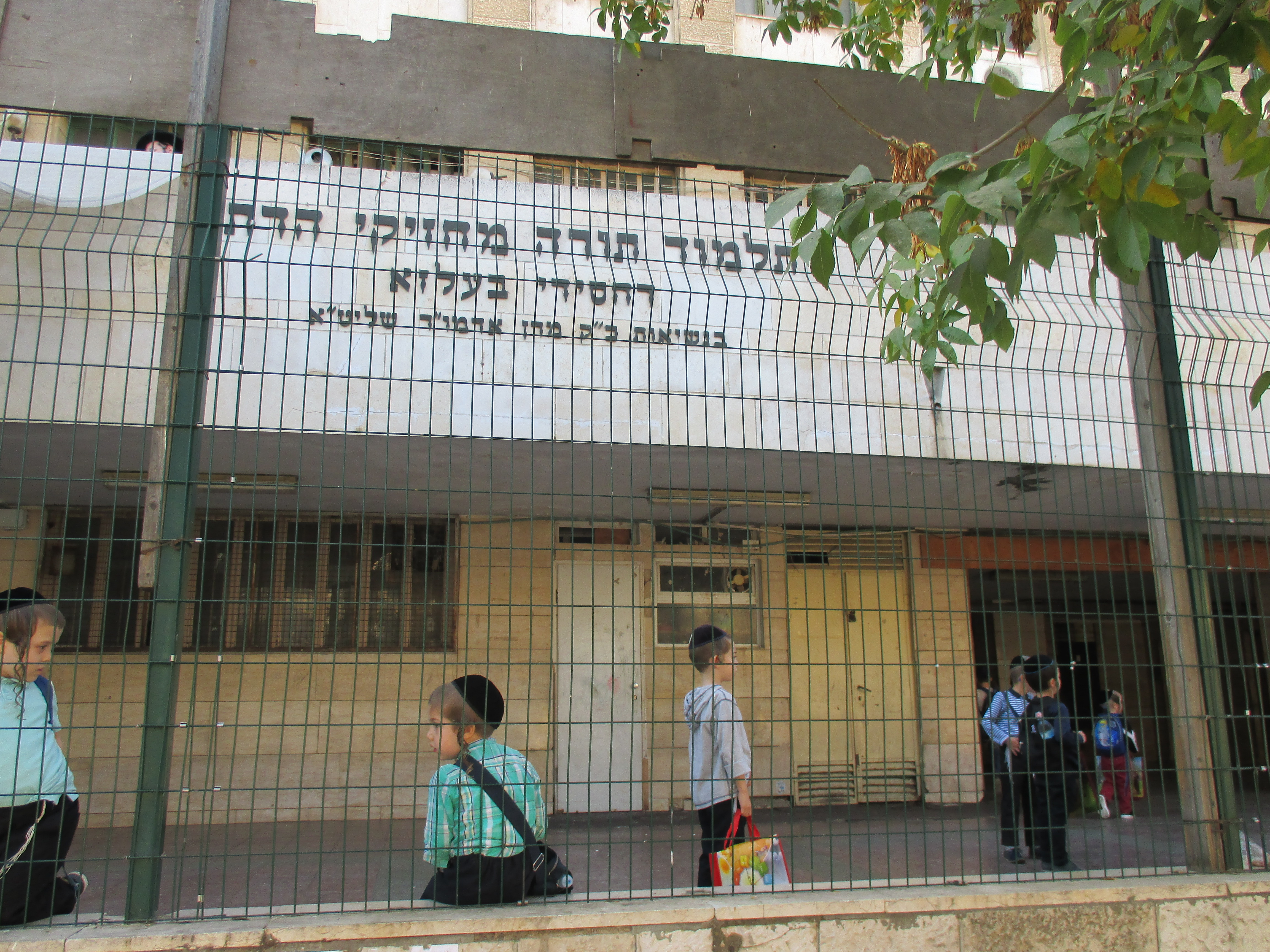 Jerusalem, Yitskhak Sholal st, Talmud Torah Belz